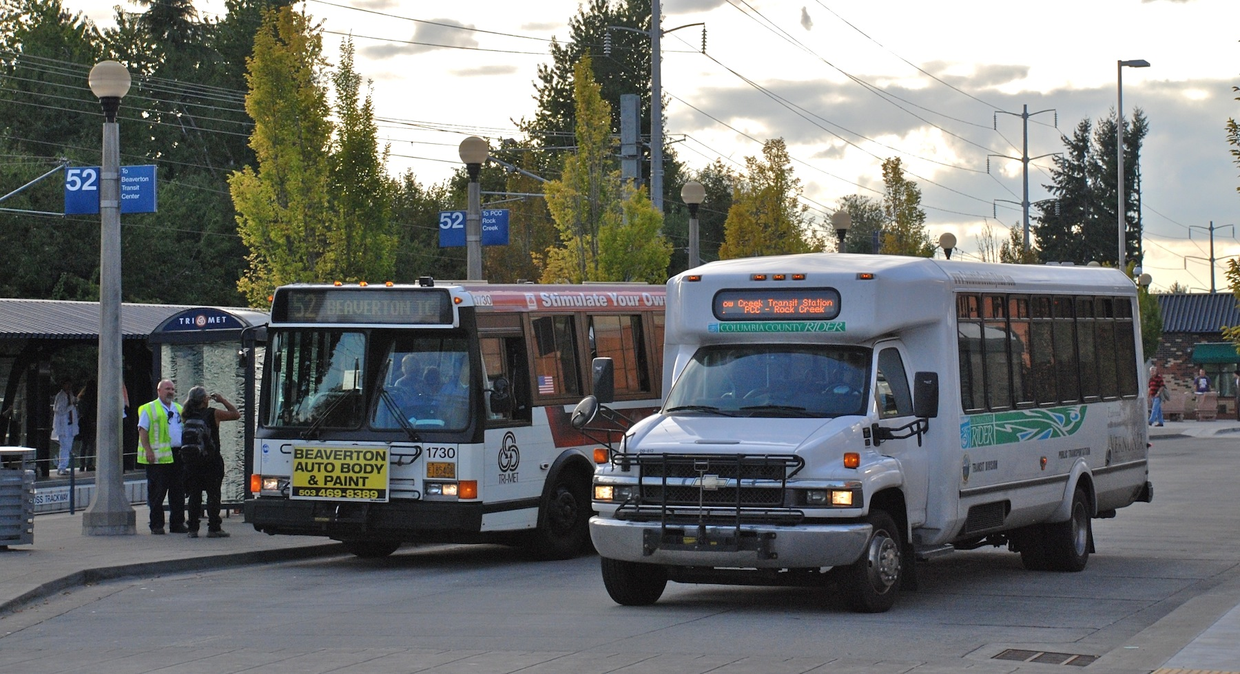 A large passenger van/minibus (midibus in British English) of the Columbia County Rider, the public transit service run by Columbia County, Oregon, passing through TriMet's Willow Creek/SW 185th Avenue Transit Center and MAX light rail station, in Hillsboro, Oregon (which is in Washington County). The CC Rider minibus is headed for PCC-Rock Creek campus and then on to Scappoose, in Columbia County. It is passing a bus on TriMet's route 52.